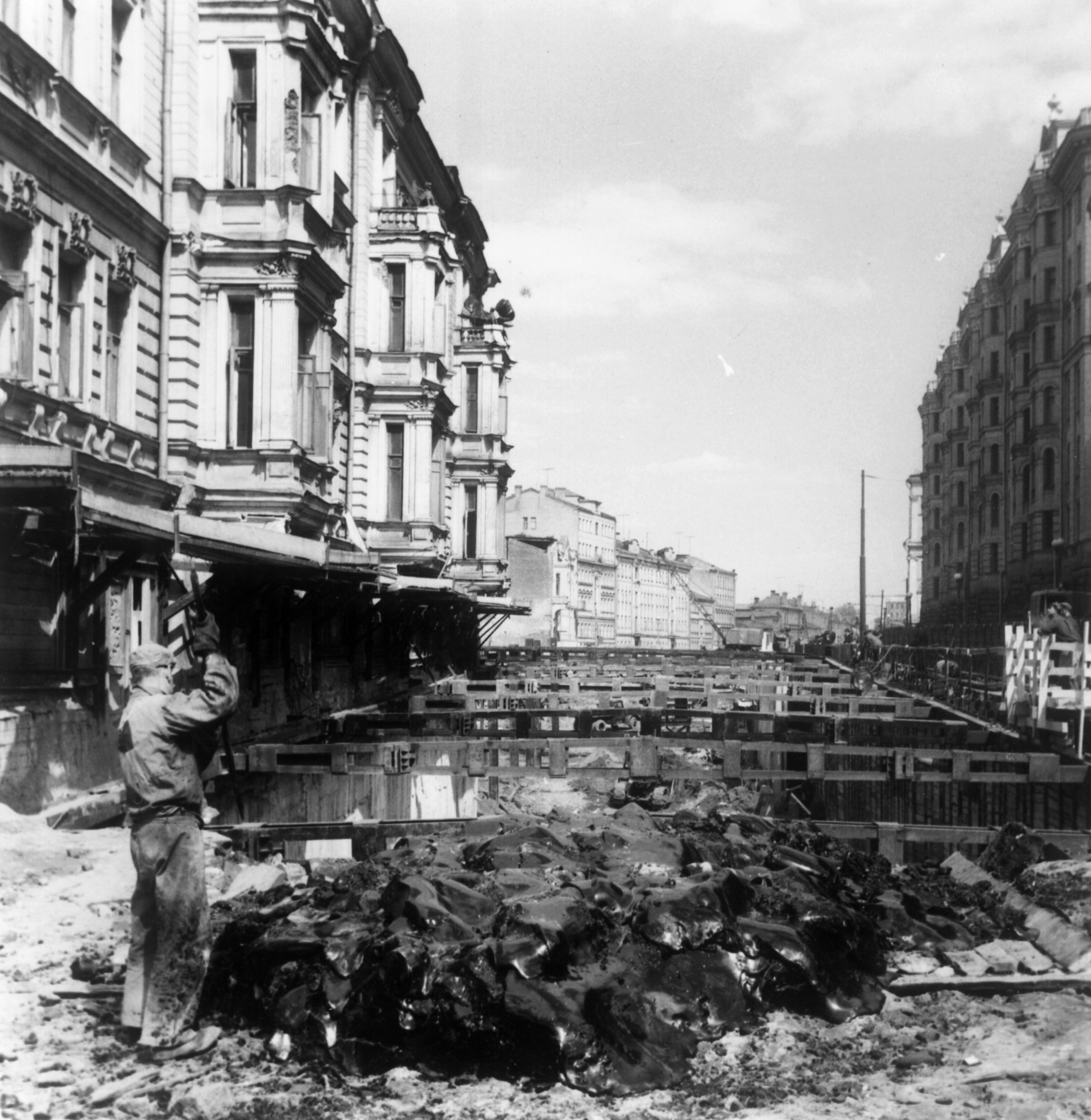 Construction of Mayakovskaya Square tunnels of the Garden Ring in Moscow. The southbound tunnel runs under the Sophia Hotel building on the left. The northbound tunnel, shown here, is built by cut-and-cover method. The tunnels are divided by a massive underground wall supporting the wall of the hotel building (here's how it looks half a century later, from the opposite side). Location: Russia, Moscow Tags: Soviet Union, construction, subway construction (incorrect. Road tunnel, not subway) Title: Szadovaja-Triumfalnaja utca a Tverszkaja utca felől nézve.